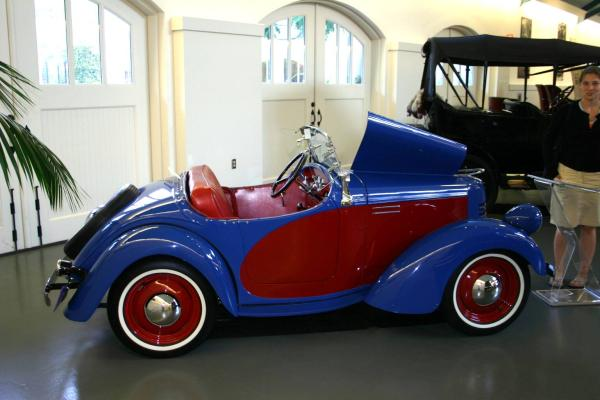 1939 American Bantam photographed by DougW of at the Frick Museum in Pittsburgh, PA. Previously uploaded to Wikipedia 01:28, 4 August 2006 by DougW